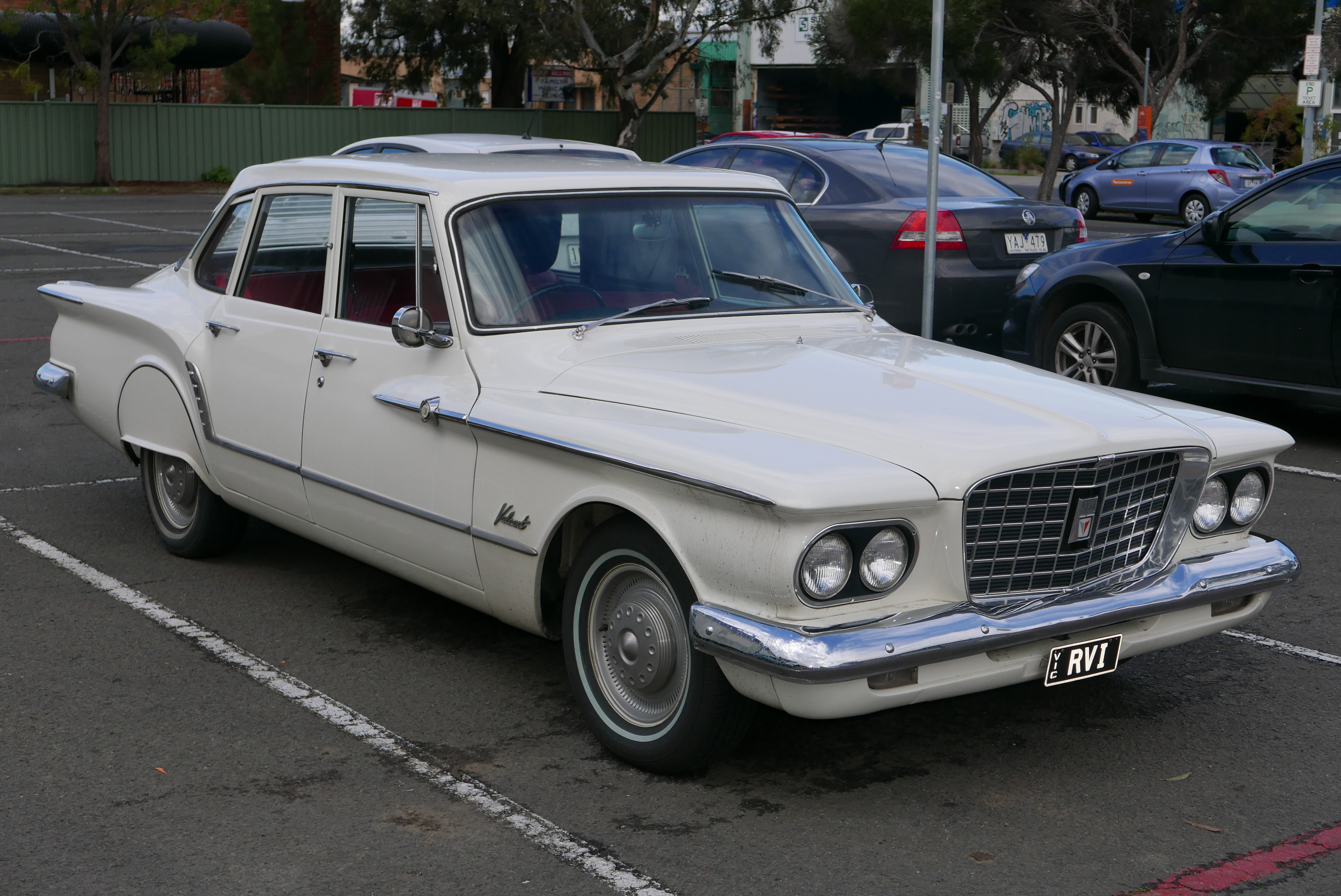 1962 Chrysler Valiant (RV1) sedan. Despite the date discrepancy between the description and the vehicle registration information below, a check of the production dates of the RV1 reveals a production range of January 1962 to March 1962. Photographed in Brunswick, Victoria, Australia. Vehicle registration enquiry results Jurisdiction Victoria Registration RVI Chassis code RV1223 Engine code RP11025 Compliance date 1961-01 (not a typo) Year of manufacture 1961 (not a typo)